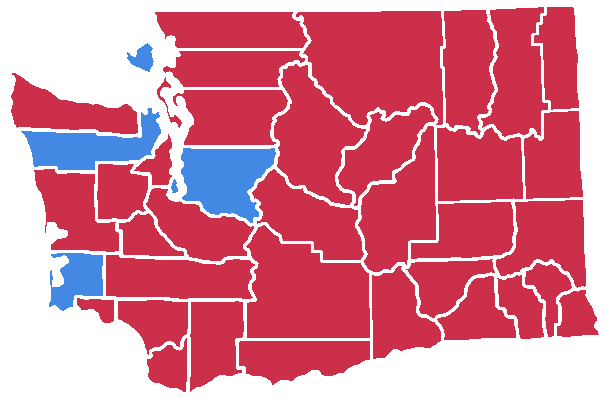 1994 senatorial election WA by counties